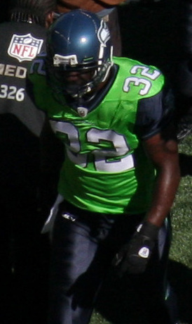 Seattle Seahawks players, 2009